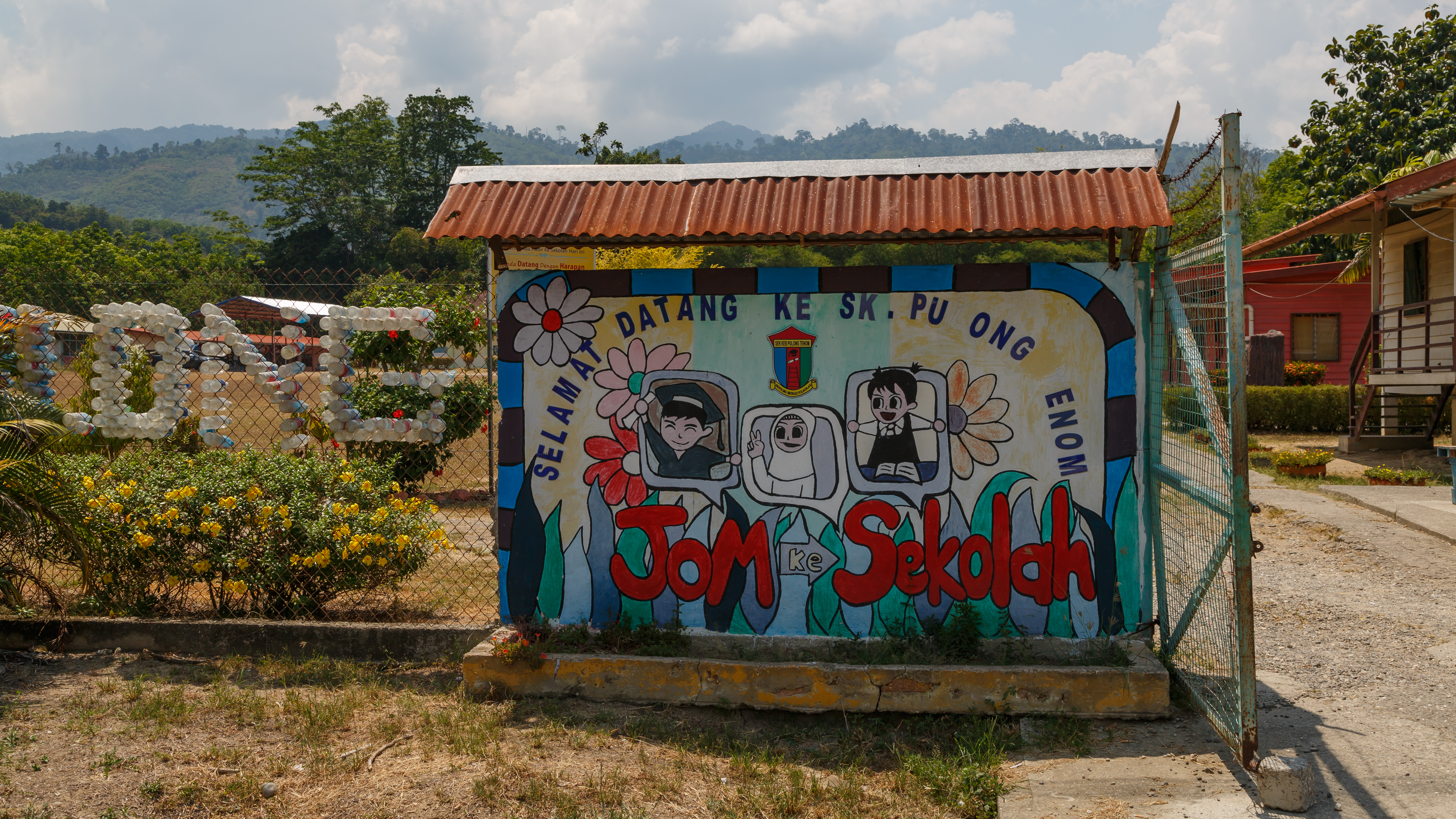 Kg. Pulong, Sabah: Gate to SK Pulong, a primary school in Sabah